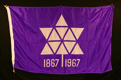 purple Canada Centennial Flag (c1967) from Settlers, Rails & Trails Inc. (Argyle, Manitoba, Canada) famous Canadian Flag Collection.